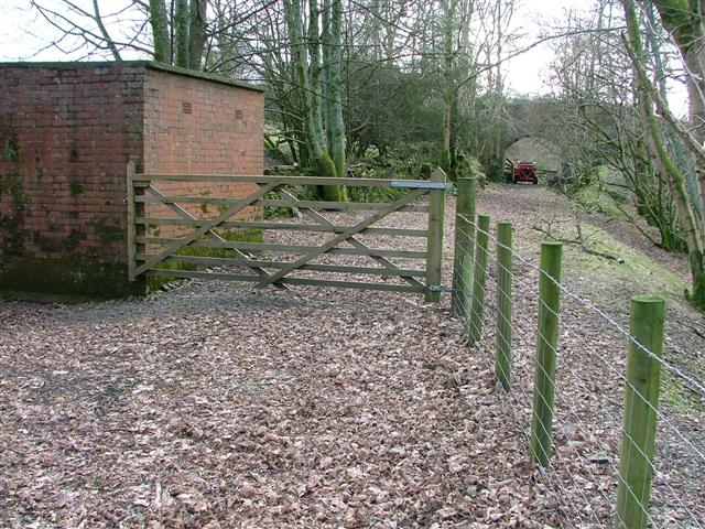 Dismantled Railway Line, Near Torver Route of the old railway between Broughton and Coniston built in 1859 to transport copper ore.